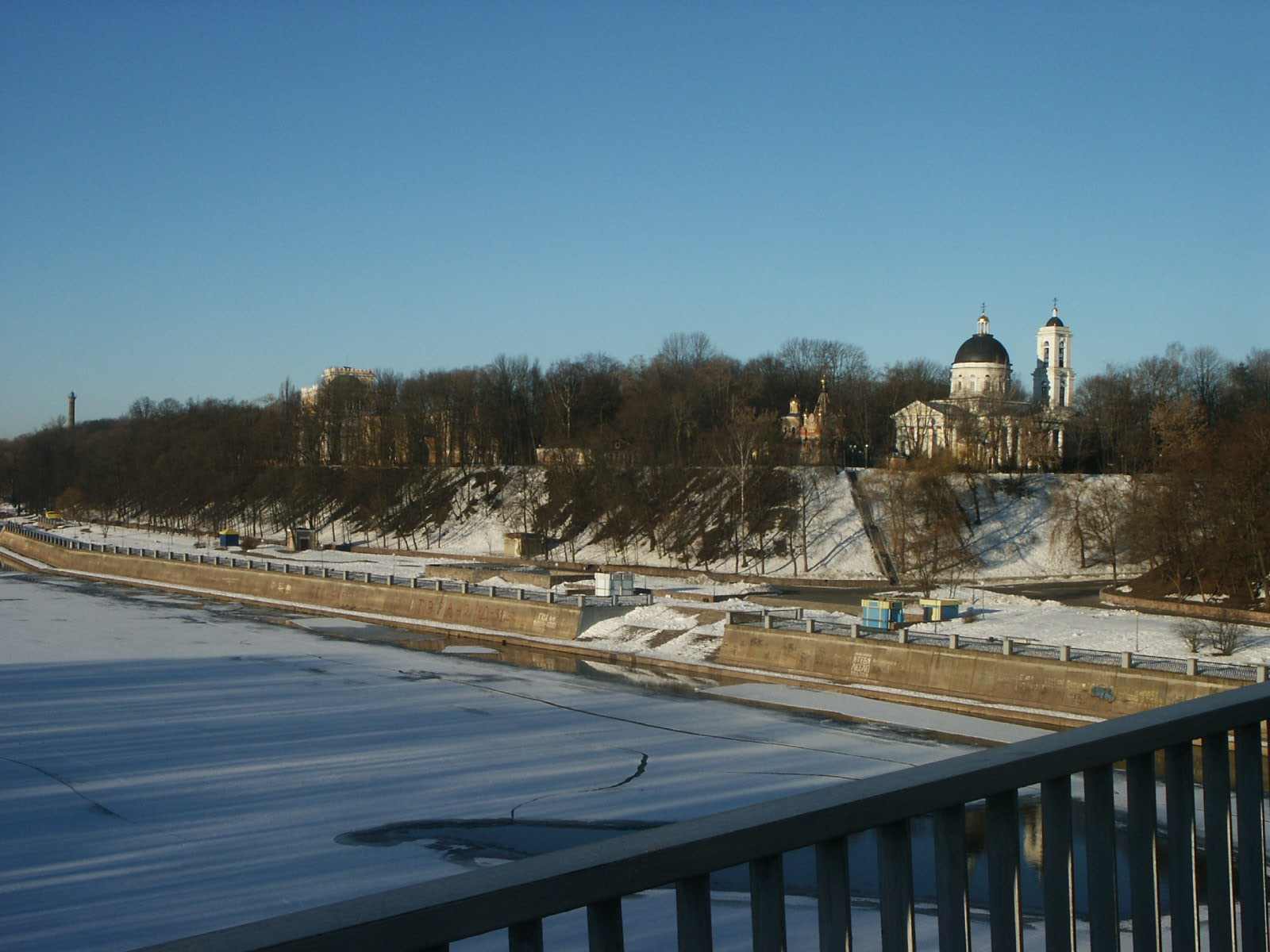 Paskevich Palace, Homel, Belarus.